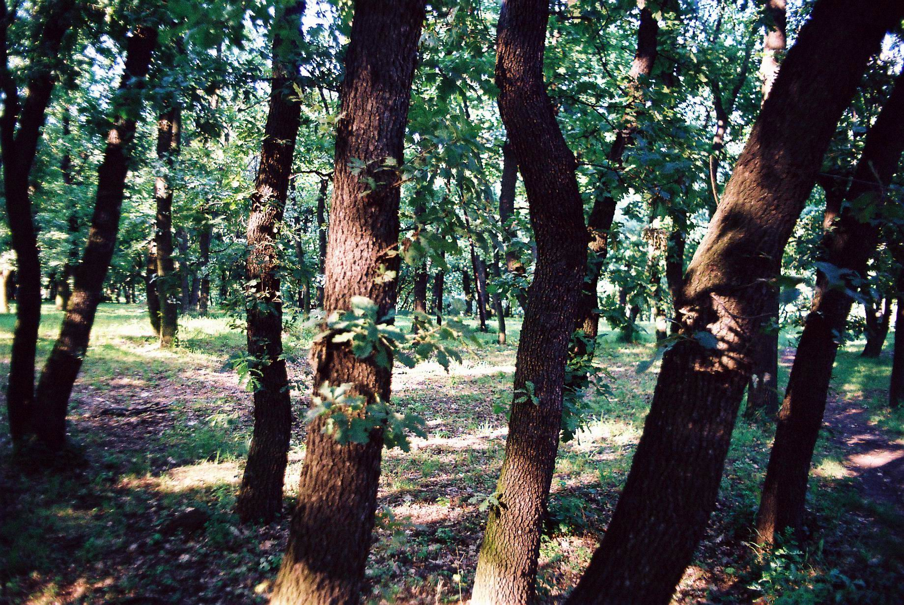 Košutnjak forest, Belgrade, Serbia